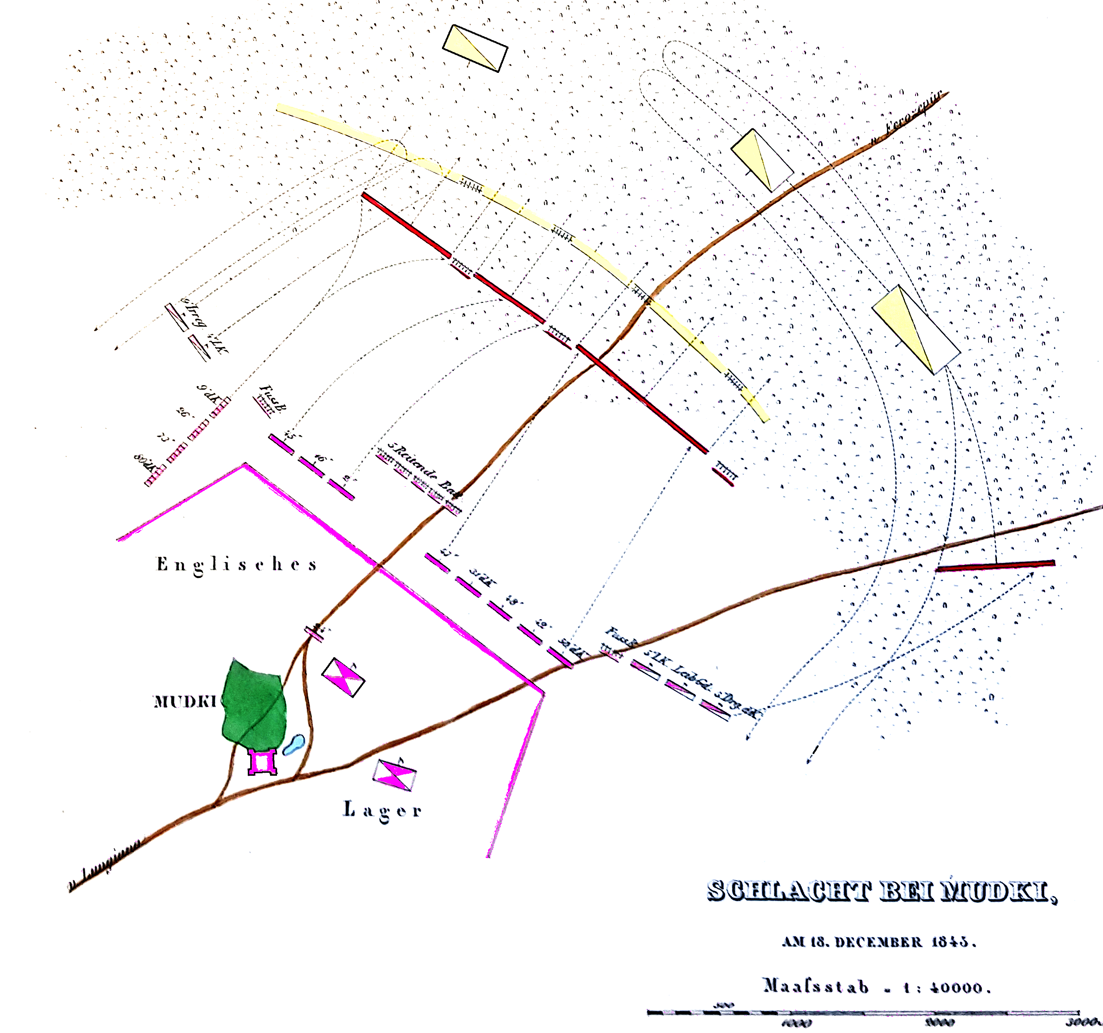 German map of the Battle of Mukdi, 1845-12-18.